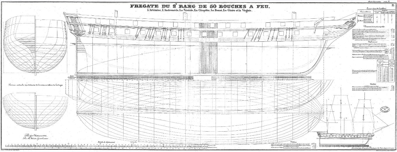 Plans of the French 2nd rank frigates. The ships of the type comprised Artémise, Andromède, Néréide, Cléopatre, Danaé, Gloire and Virginie